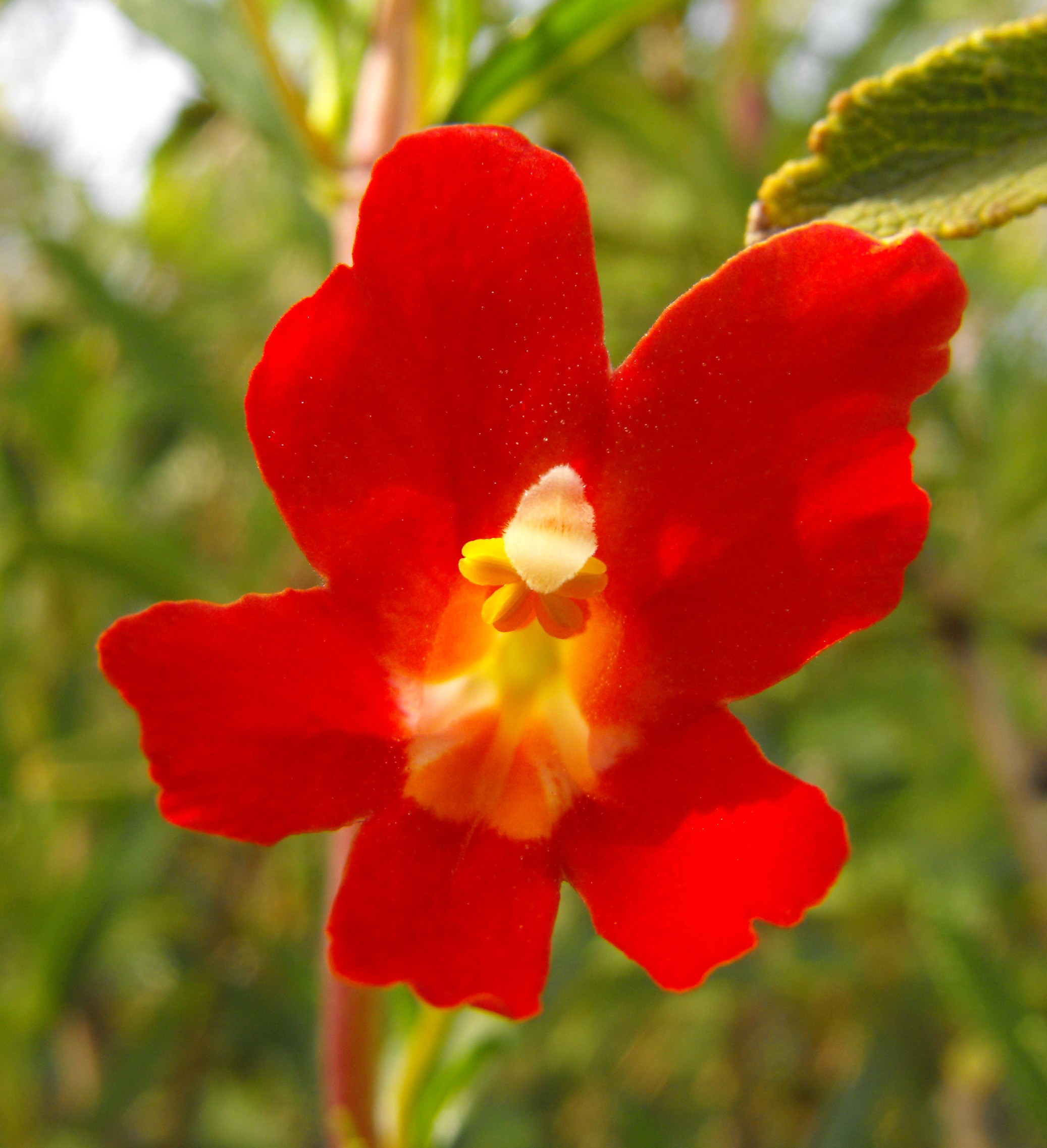 Mimulus aurantiacus in Carmel Mountain Preserve (Carmel Mountain Ranch Community Park), San Diego, California. In the foothills of one of the central Peninsular Ranges.